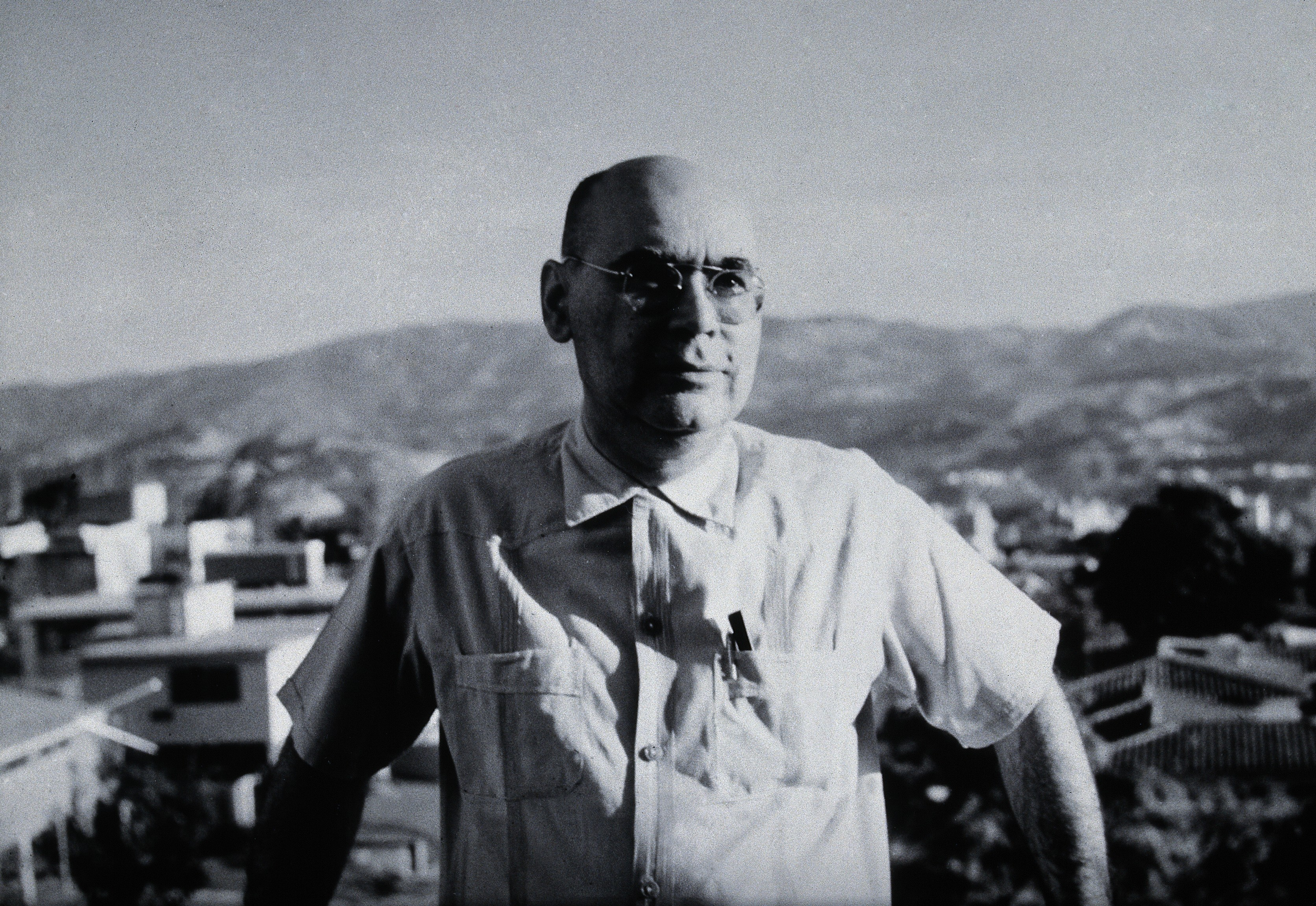 Arnoldo Gabaldon. Photograph by L.J Bruce-Chwatt. Iconographic Collections Keywords: portrait photographs